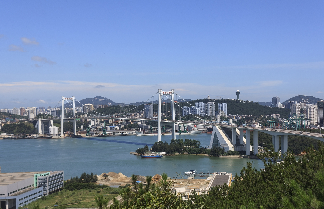 海滄大橋, Haicang Bridge, Puente de Haicang